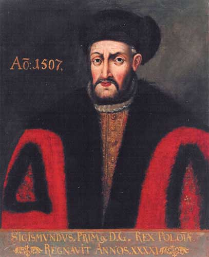 not contemporary portrait showing King Sigismund Sigismund I the Old of Poland.